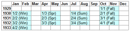 Grid showing volume number/issue number of Science Wonder Quarterly and Wonder Stories Quarterly. The color coding indicates the editor; there was only one editor, David Lasser, so only one color is used.